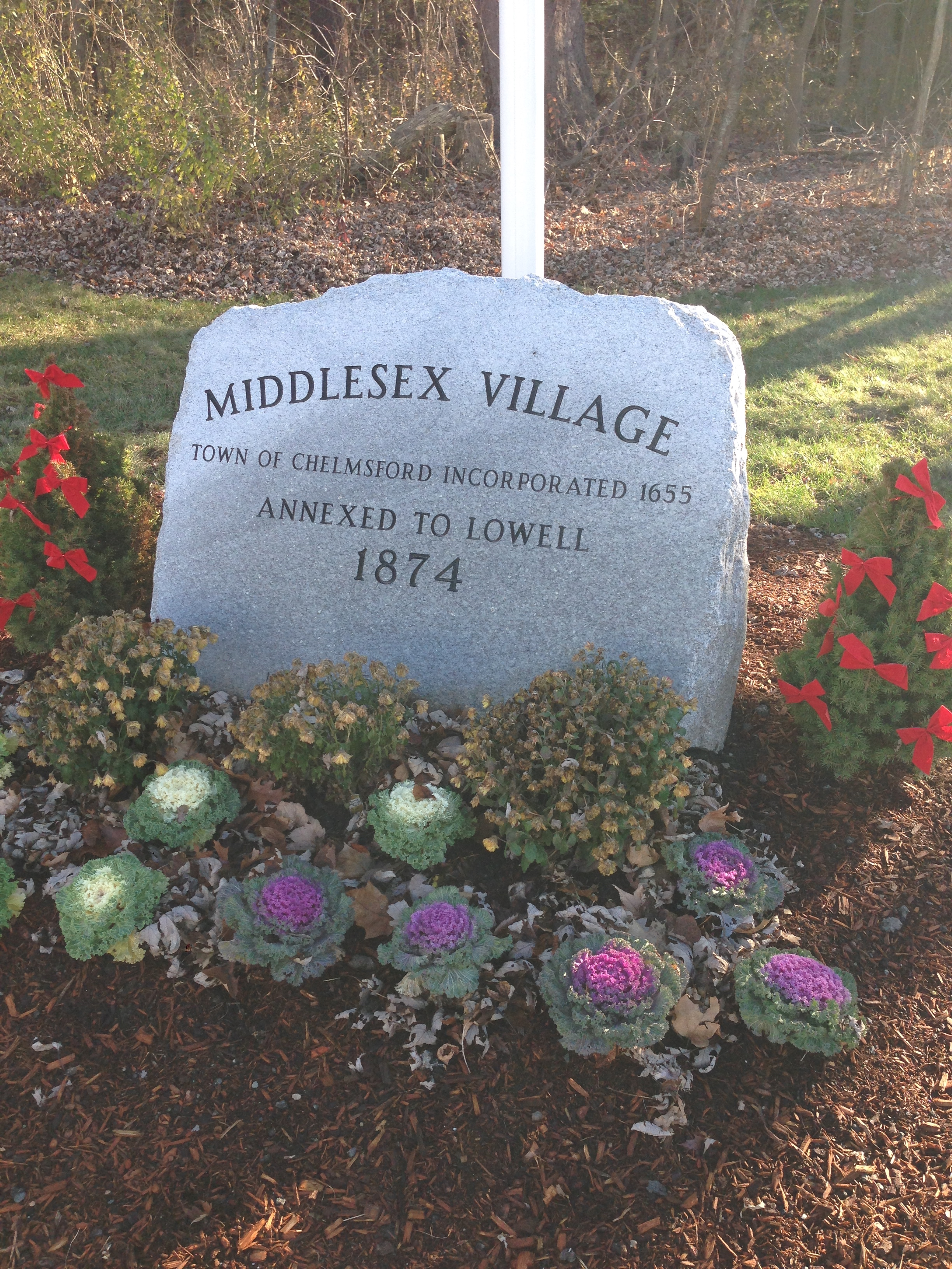 Marker for Middlesex Village neighborhood in Lowell, MA. It was annexed from Chelmsford, MA in 1874